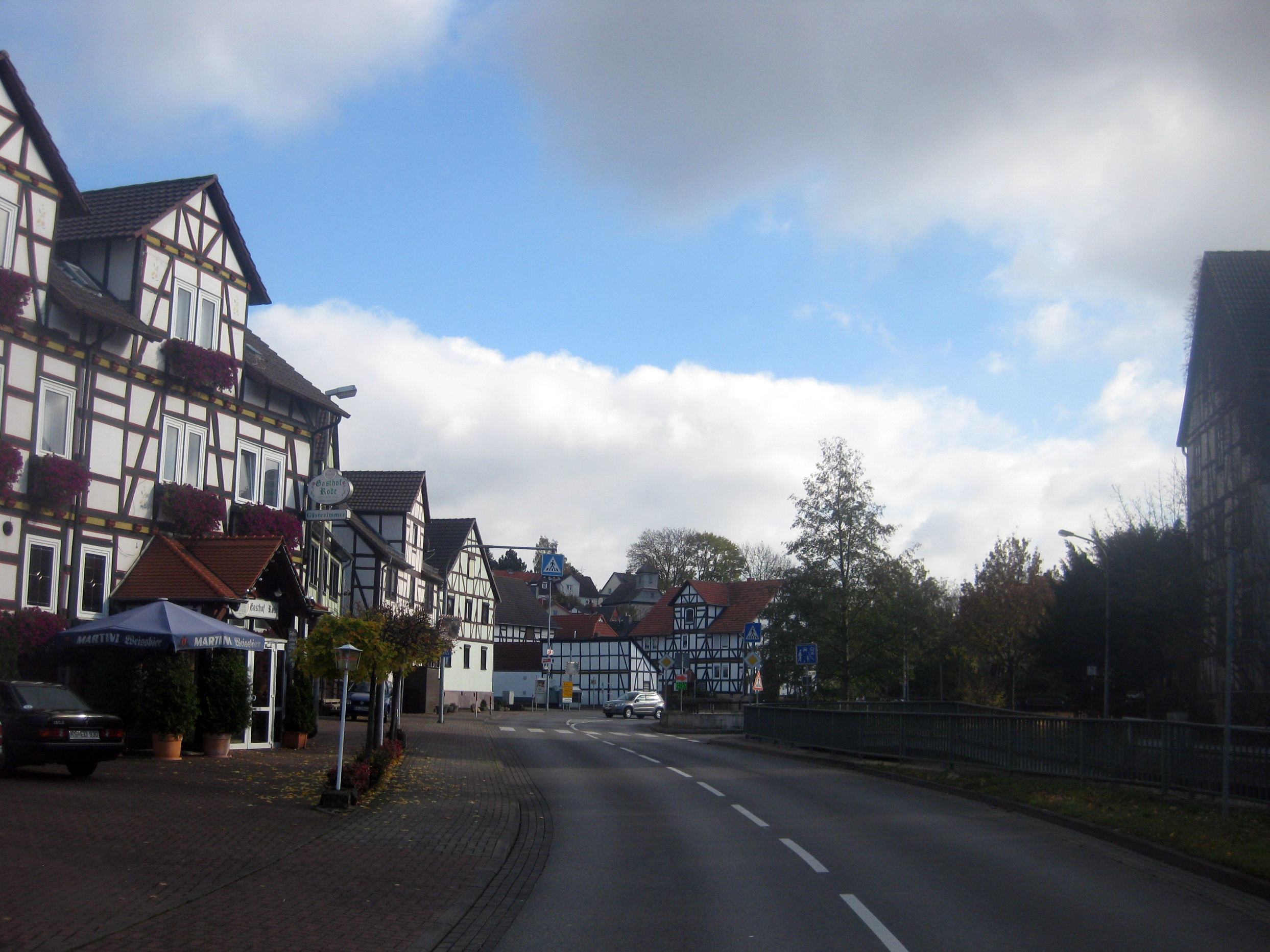 Subdivision Ochshausen of Lohfelden